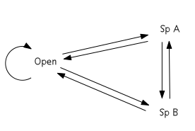 This images shows the pathways of succession in a cyclical cycle.